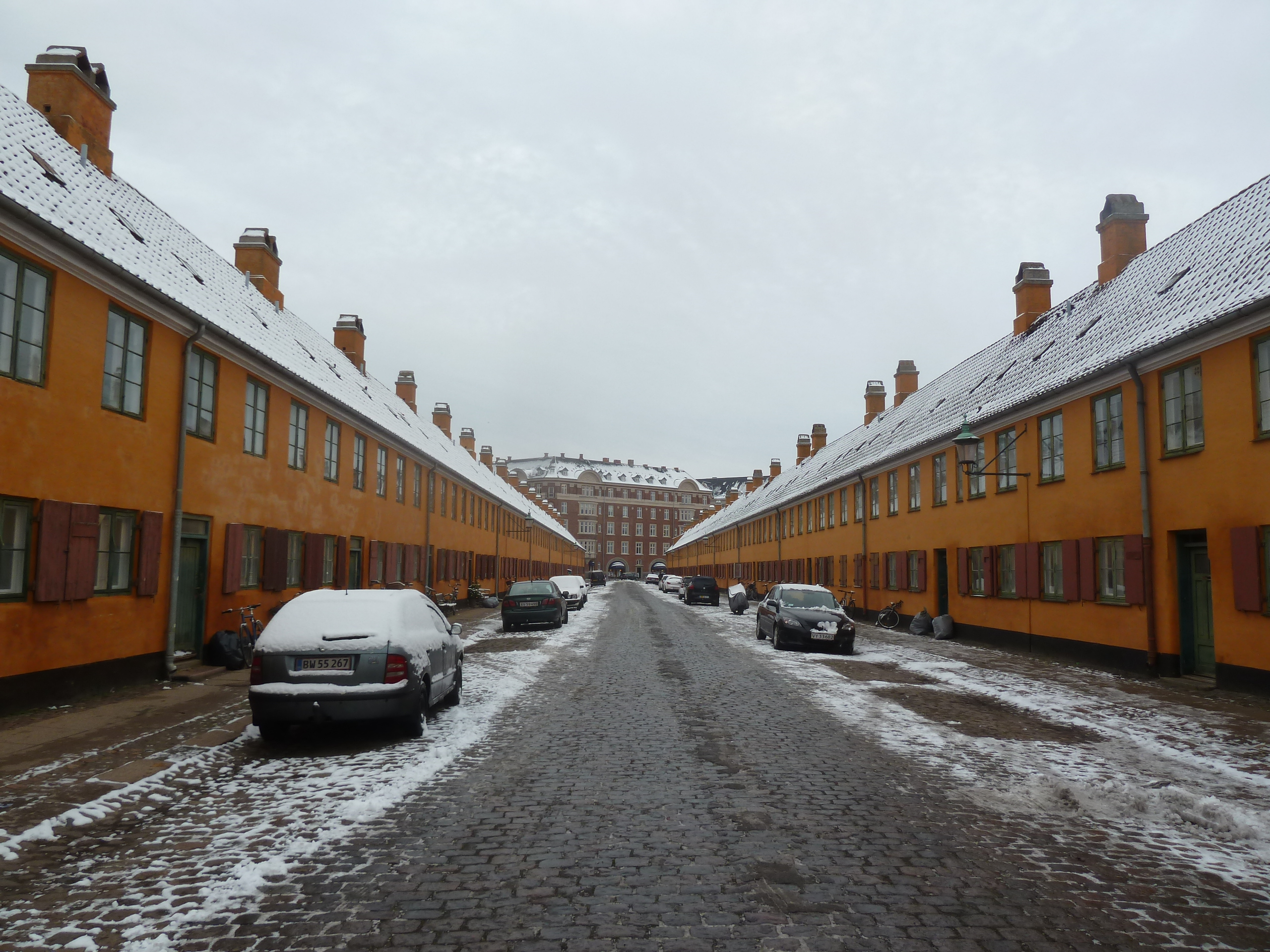 The street Delfingade in the area Nyboder in Indre By, Copenhagen.